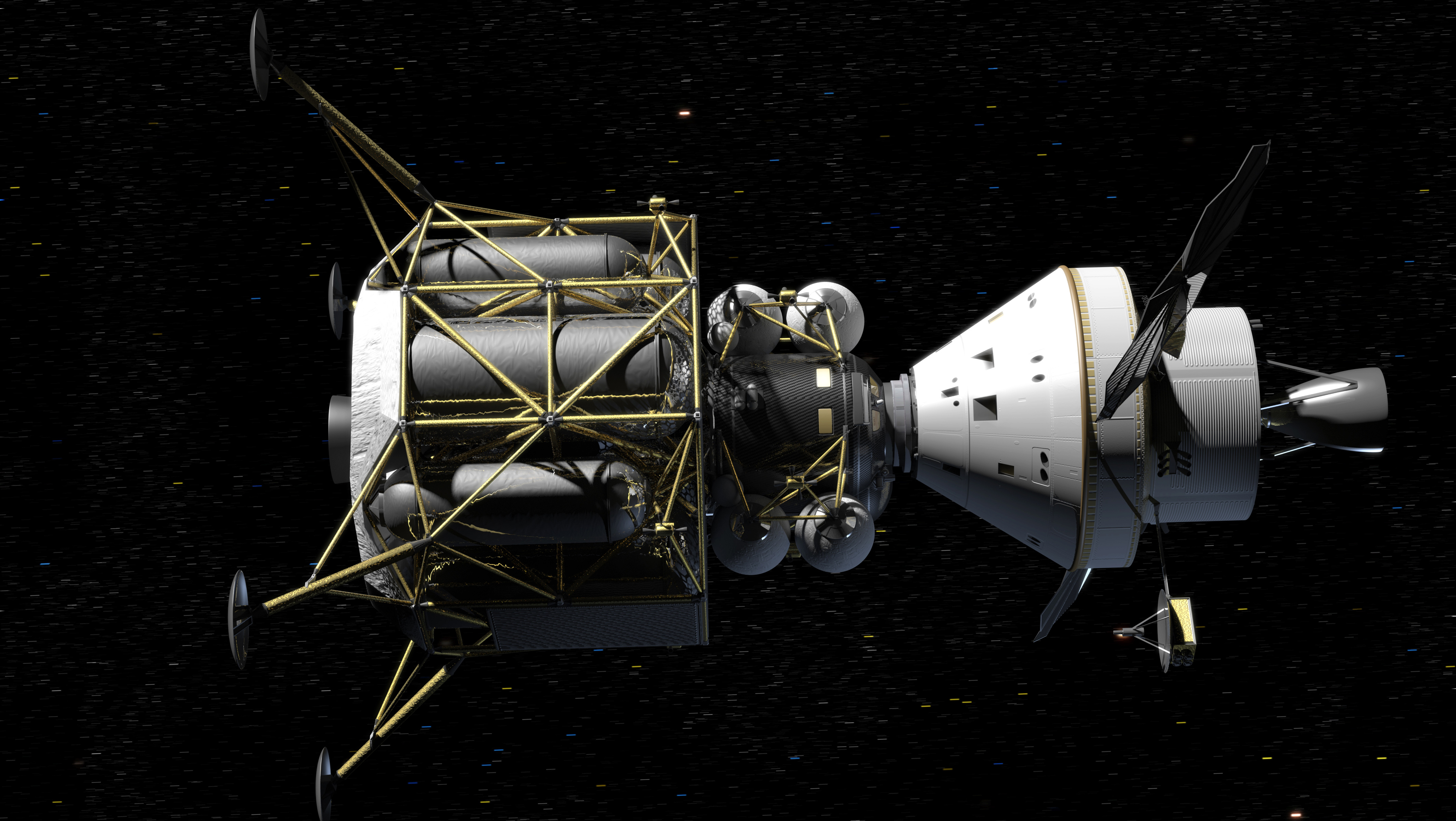 Orion (right) flies in space while docked with a lunar lander in this NASA artist's rendering. 607 version. Please note that this artwork is not precise.